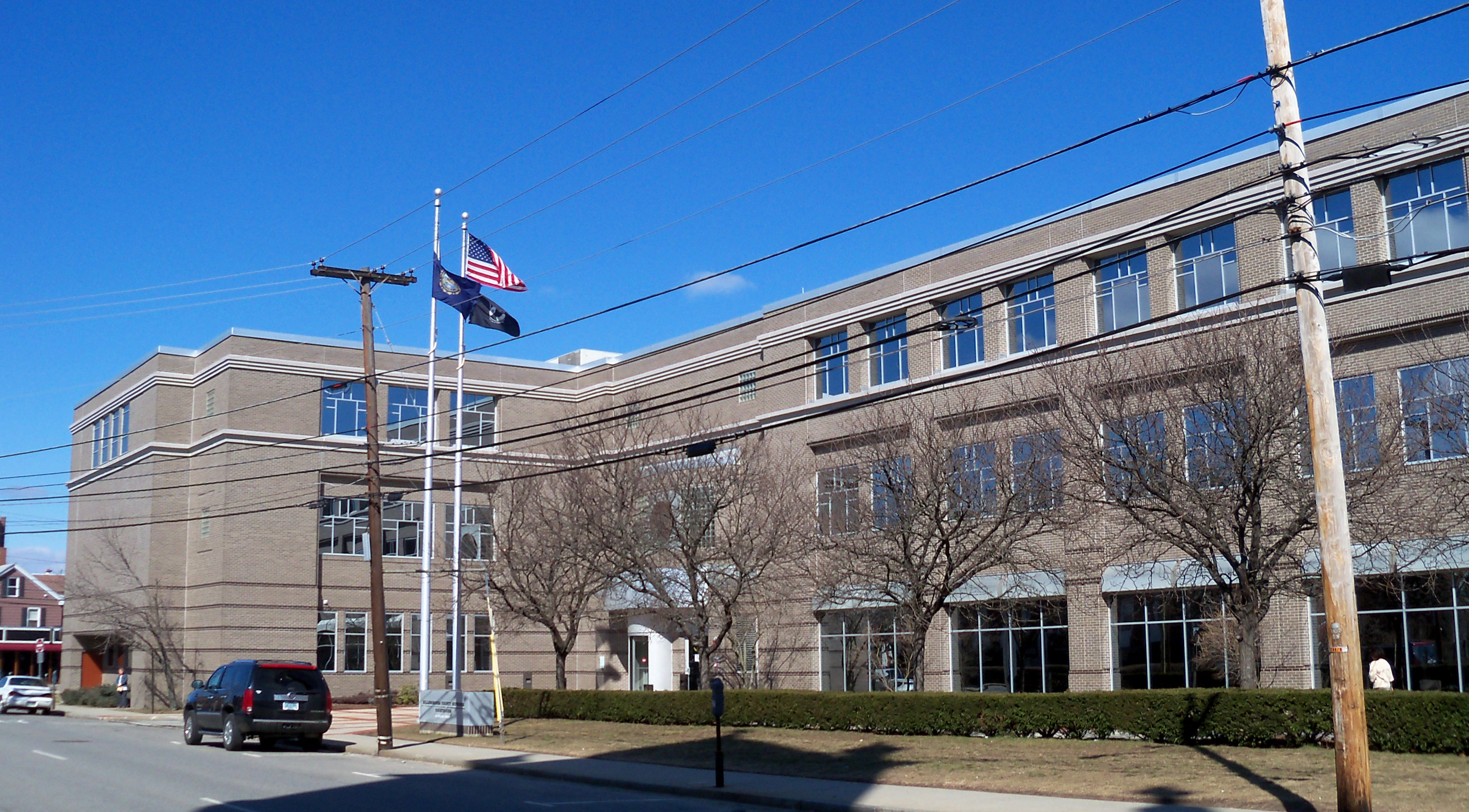 Courthouse in Nashua, New Hampshire, USA.